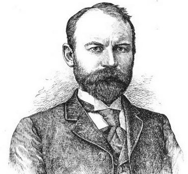 Pennsylvania attorney and historian Morton Luther Montgomery as shown in his book, "Historical Sketch of Reading Artillerists: Read Upon the Occasion of their 102d Anniversary in Metropolitan Hall, May 25, 1896", which was published by J.E. Norton & Co. in 1897 (public domain).